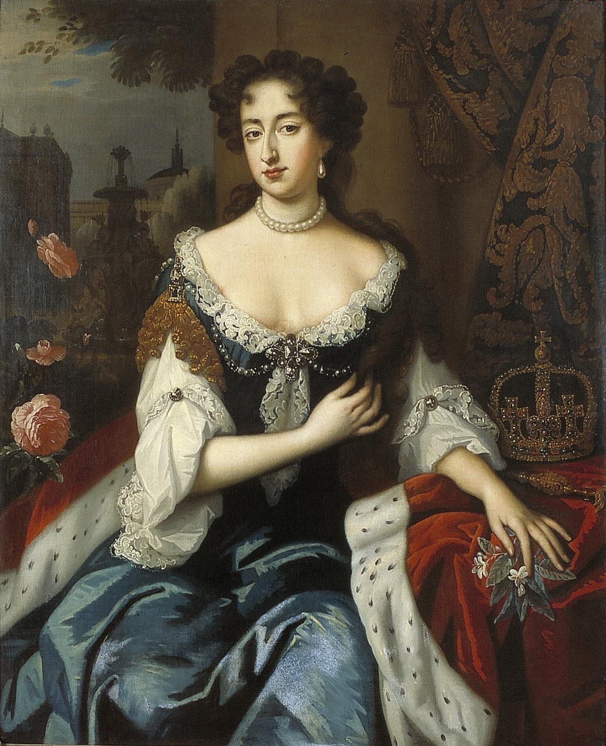 Mary Stuart (1662-1695), wife of William III, prince of Orange